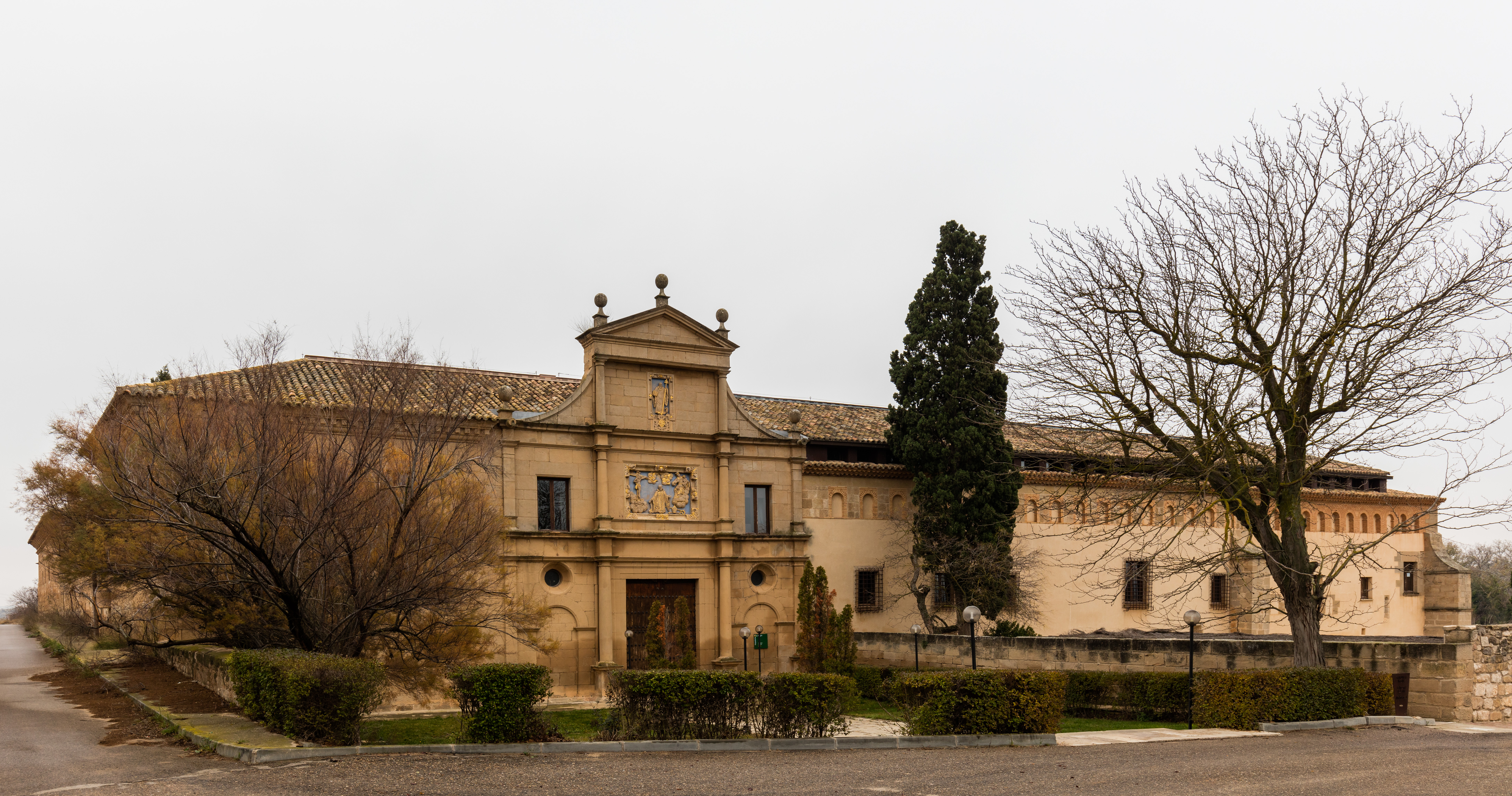 Monastery of Our Lady of Rueda, Sástago, Zaragoza, Spain